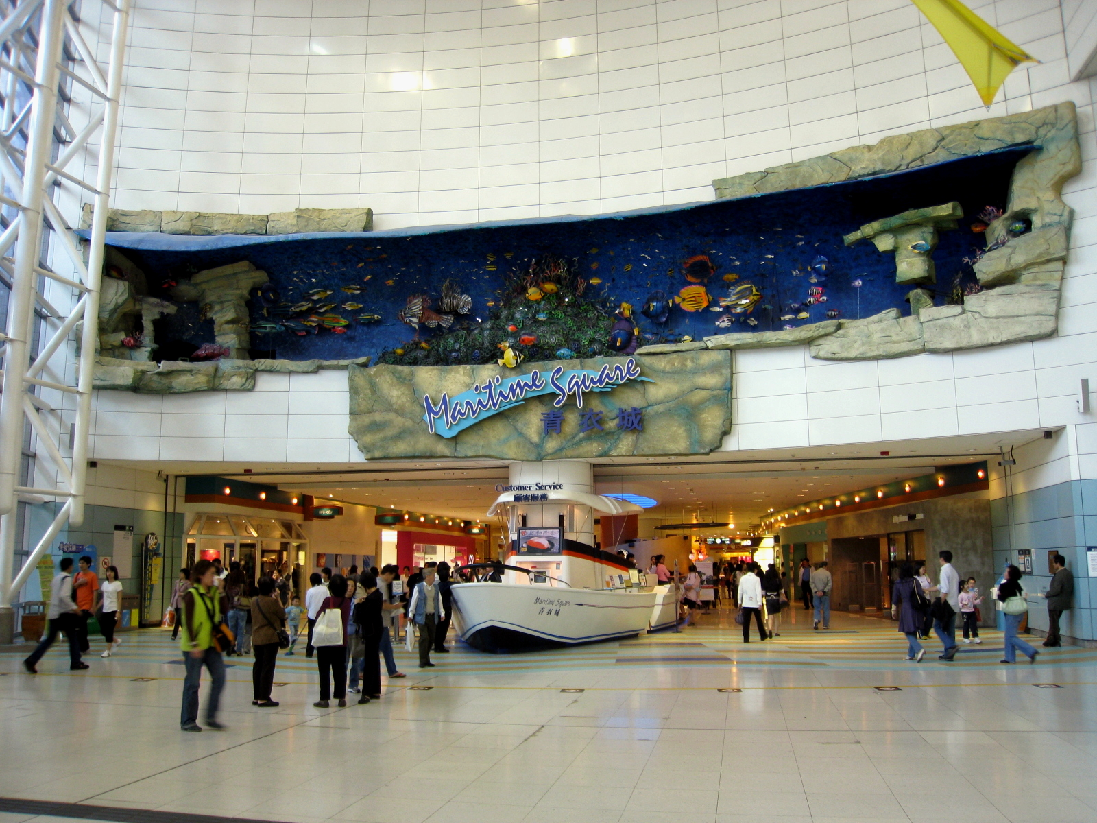 Maritime Square, Tsing Yi Station